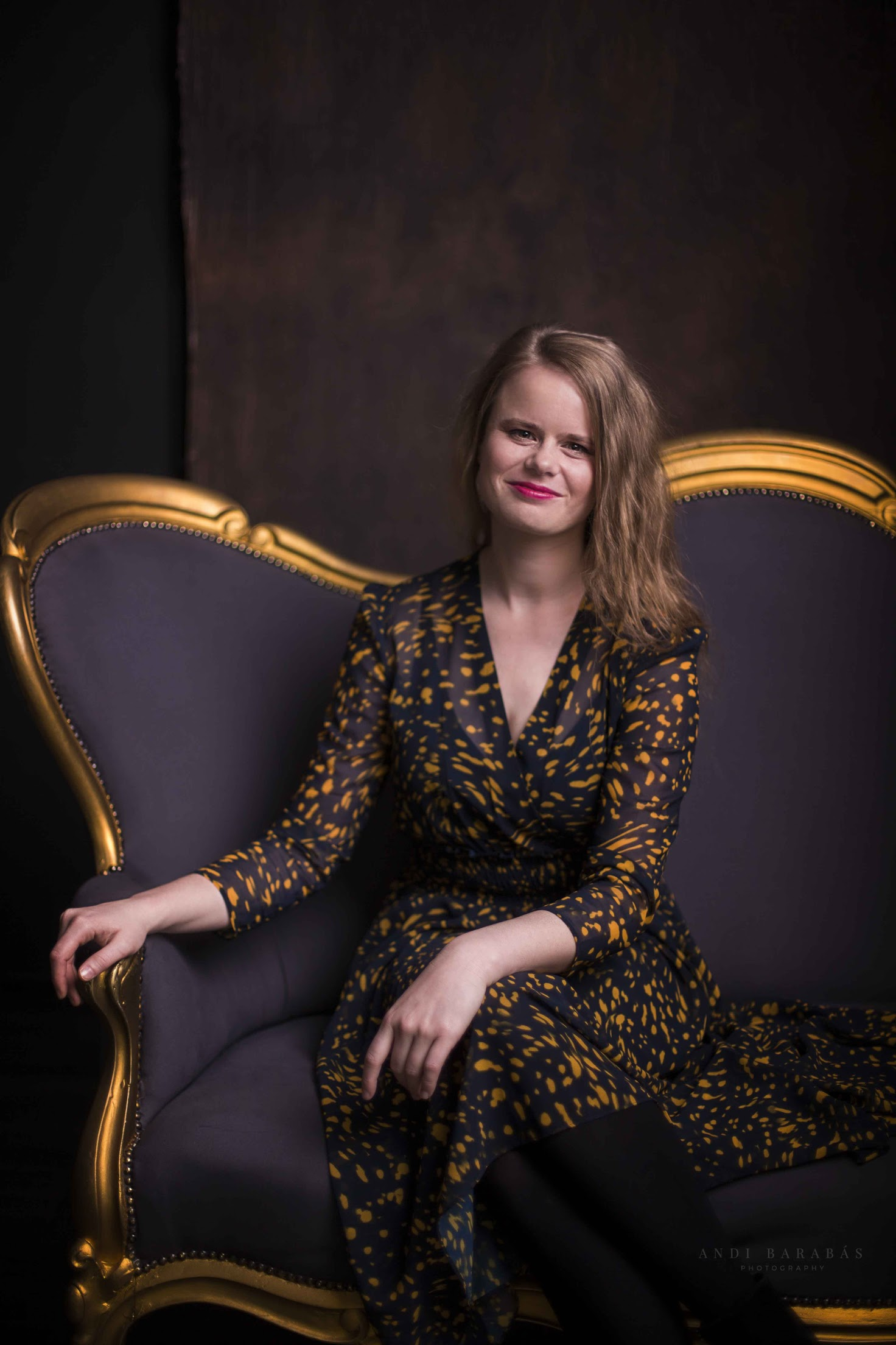 Musician, audiovisual artist, writer